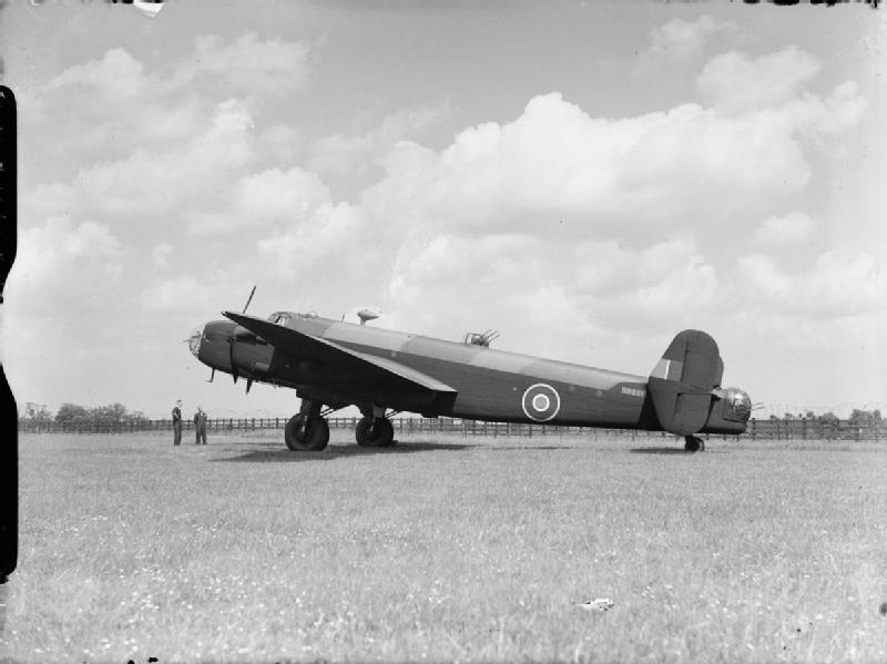 Aircraft of the Royal Air Force 1939-1945- Handley Page Hp.57 Halifax. Halifax B Mark II Series 1A, HR861, on the ground prior to delivery to No. 35 Squadron RAF at Graveley, Huntingdonshire. HR861 was lost over Nuremberg, 11 August 1943.